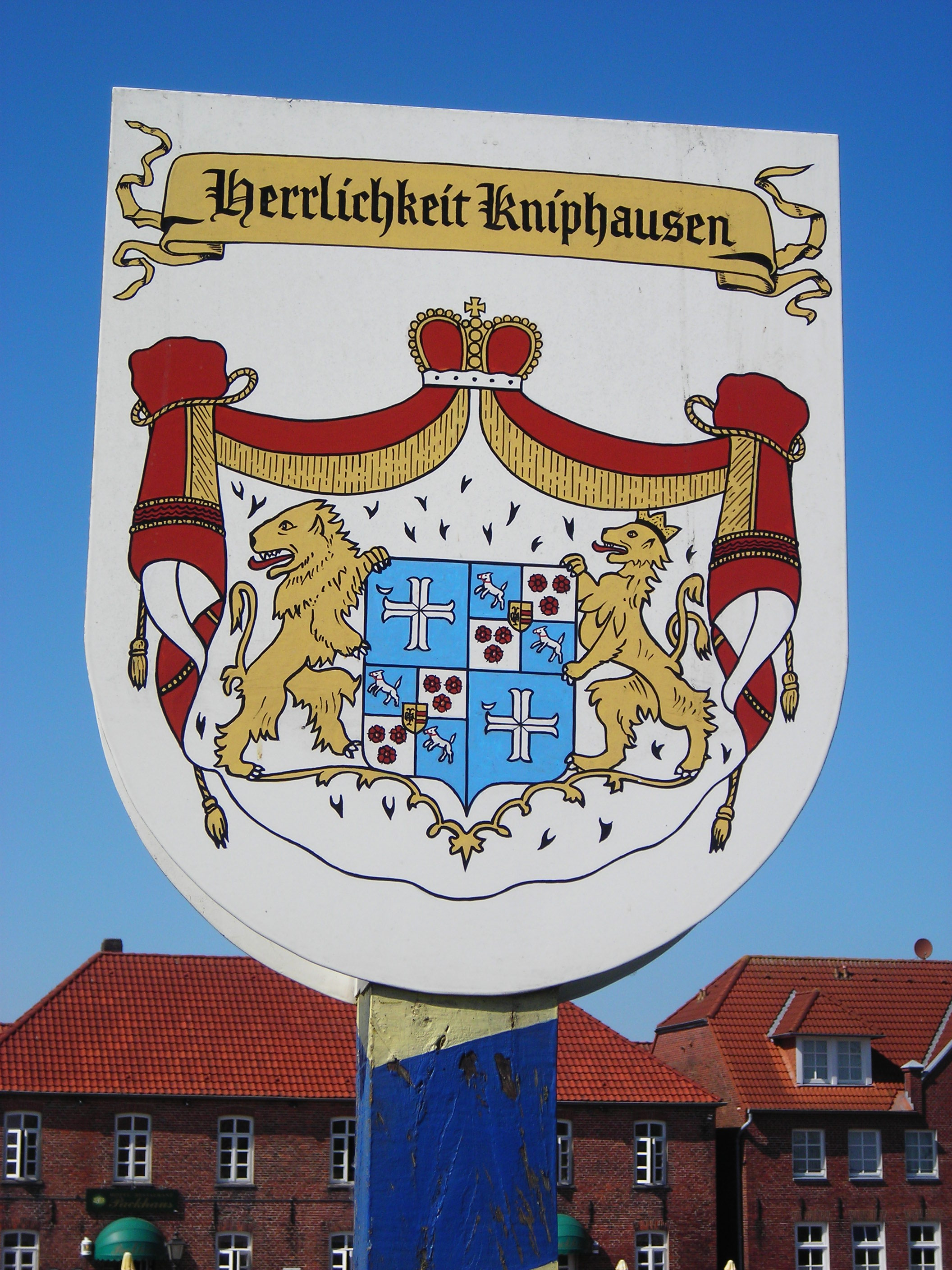 Border sign of the former German nobility of Kniphausen, photo taken in the village of Hooksiel, Germany